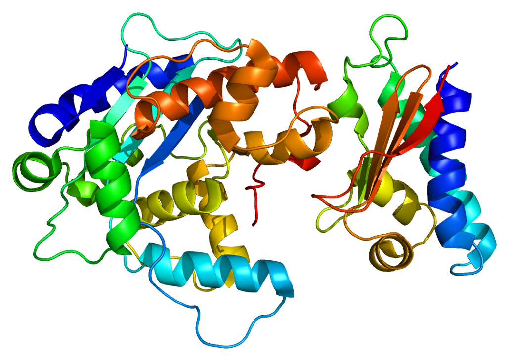 Structure of the TOB1 protein. Based on PyMOL rendering of PDB 2d5r.